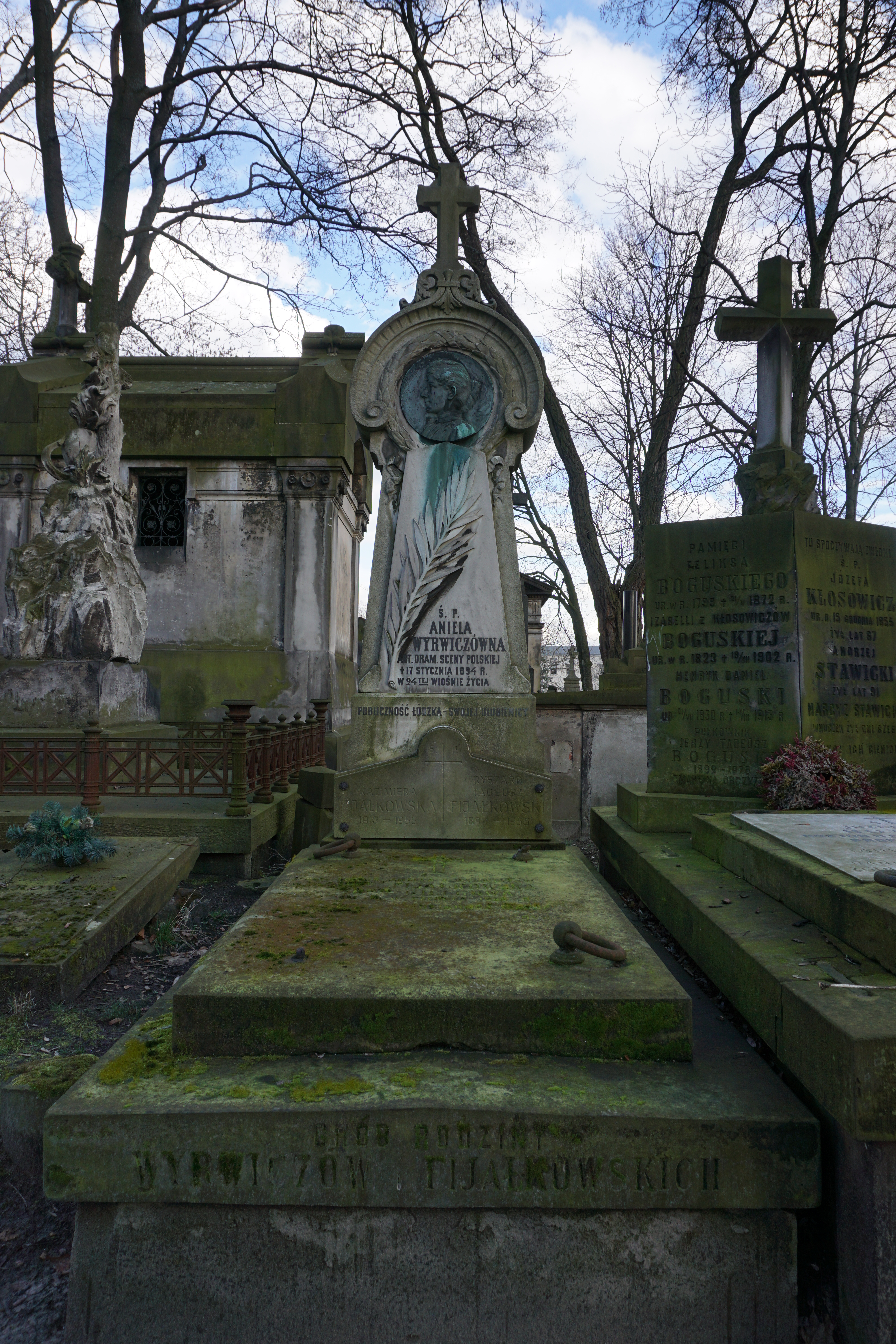 The grave of Aniela Wyrwiczówna at the Powązki Cemetery (section 161, row 6, grave 4)